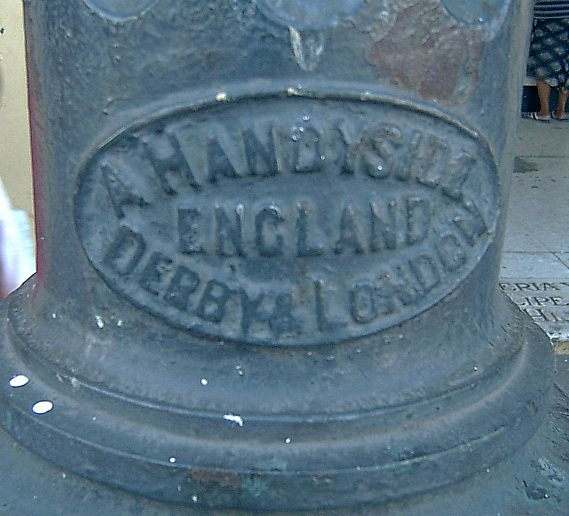 Foundry plate of Andrew Handyside Ironworks on a structural support column of a building in Plaza de Libertad, Tampico, Mexico